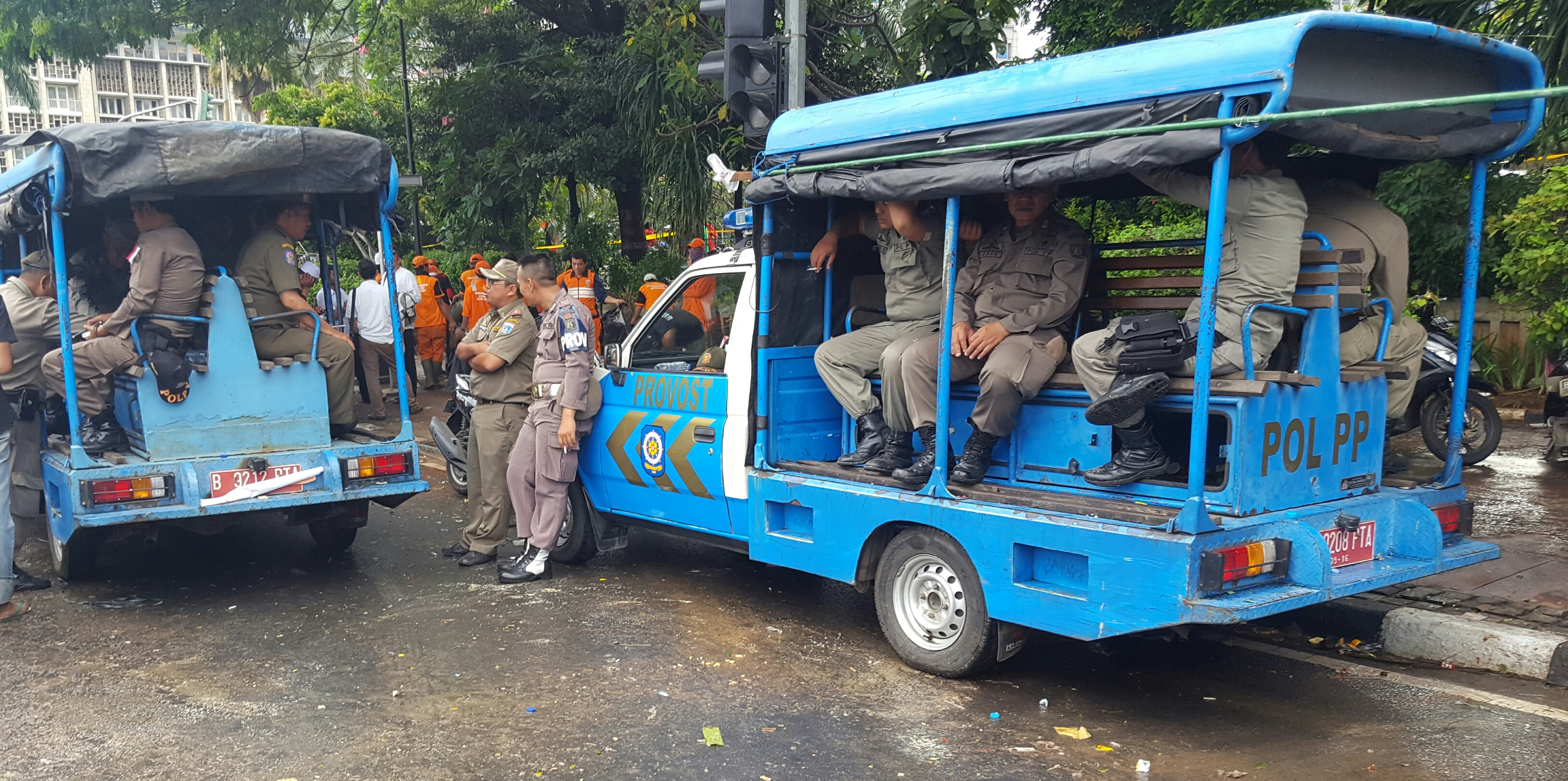 satpol pp